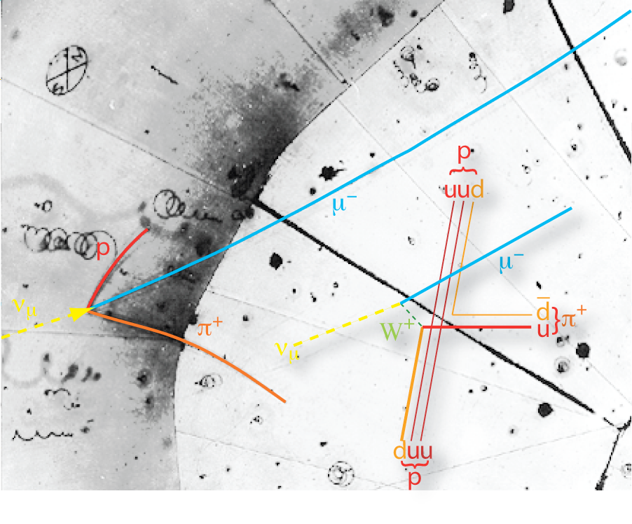 The world's first neutrino observation in a hydrogen bubble chamber was found Nov. 13, 1970, on this historical photograph from the Zero Gradient Synchrotron's 12-foot bubble chamber. The invisible neutrino strikes a proton where three particle tracks originate (right). The neutrino turns into a muon, the long center track. The short track is the proton. The third track is a pi-meson created by the collision. This picture is rotated to the original photograph and includes a colored overlay which shows the visible and invisble tracks of the decay. Also the weak neutrino decay is shown on the right hand side. From: Argonne National Laboratory, Annotated version ==